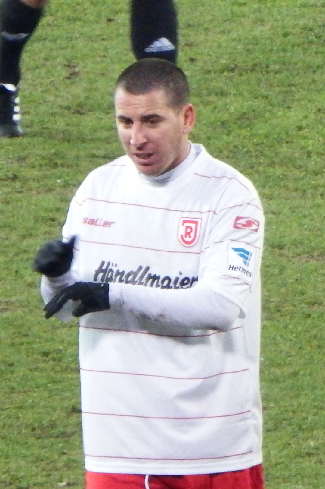 Koke as Player from Jahn Regensburg